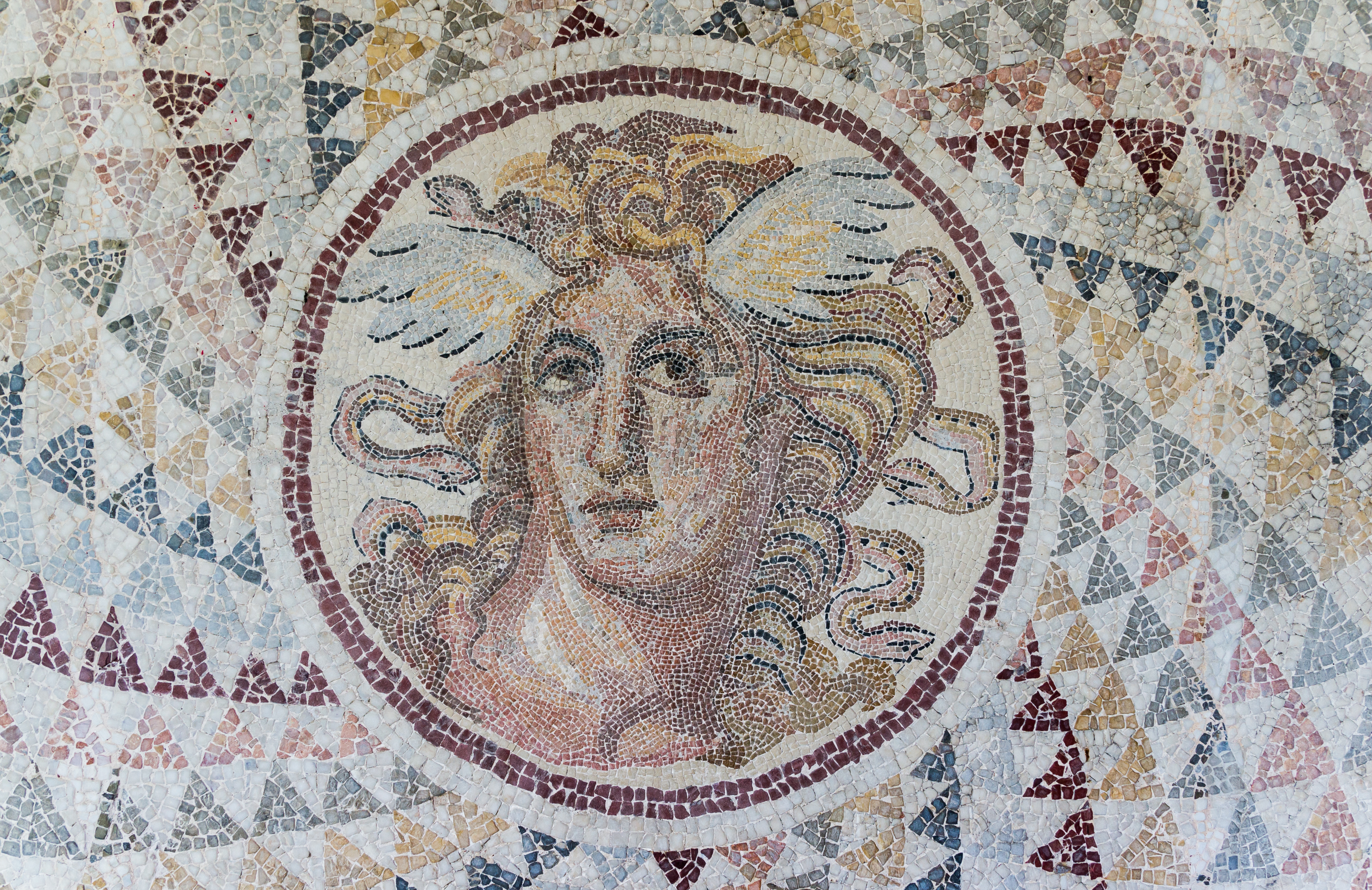 Floor mosaic, detail of the gorgone Medusa, opus tessellatum, found in Zea (Piraeus). 2nd century CE.